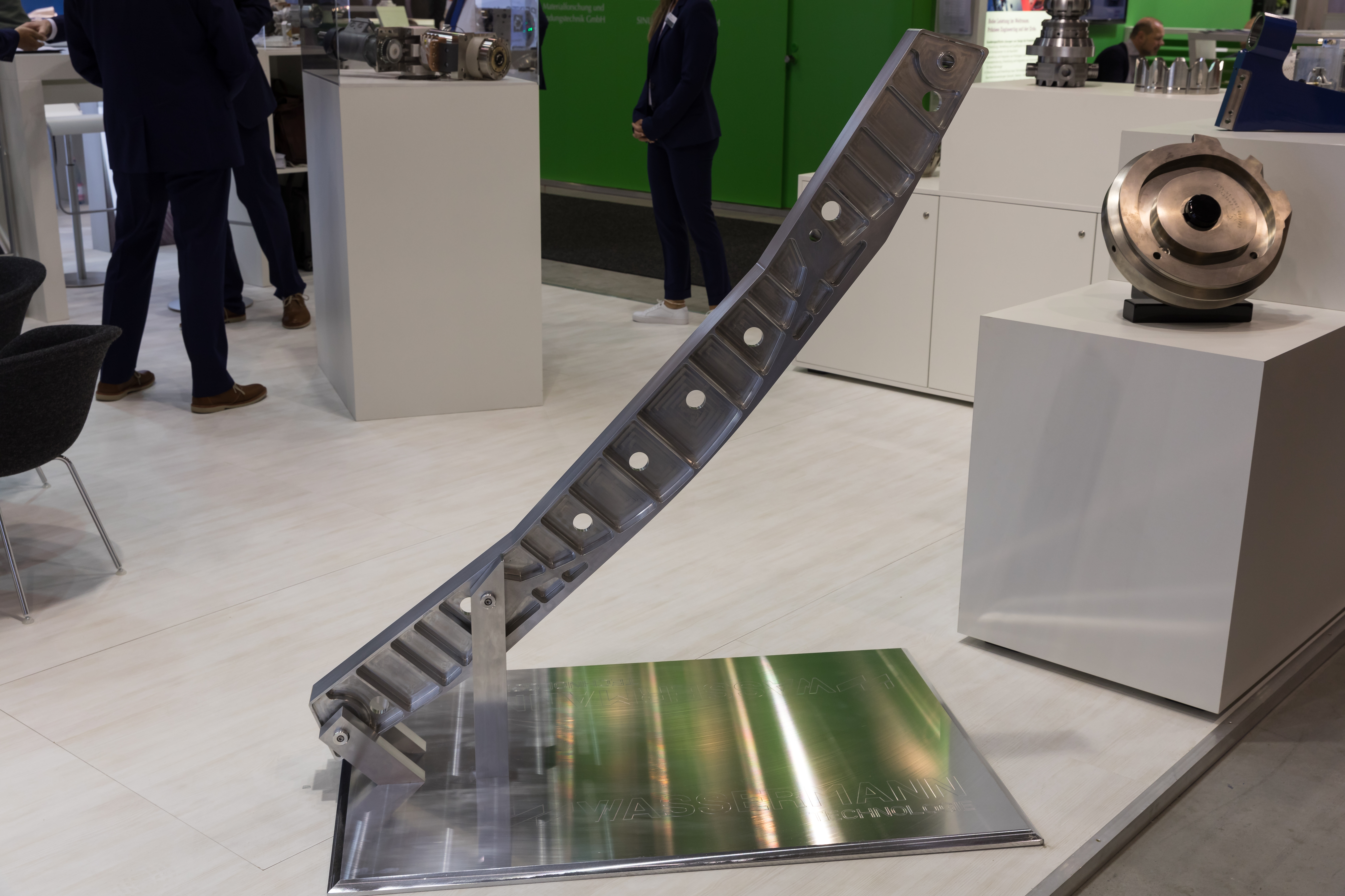 Aircraft former at ILA 2018